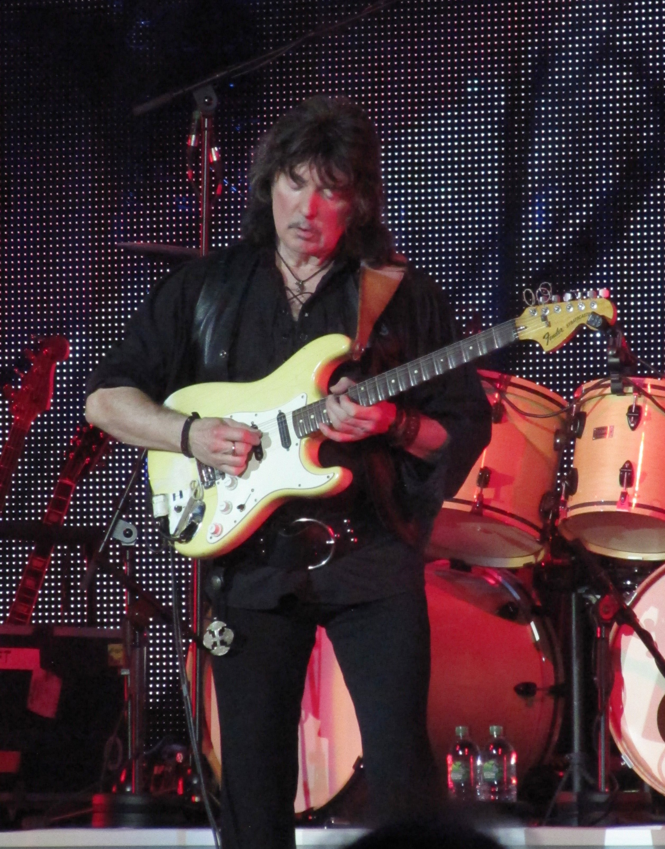 Ritchie Blackmore still cuts it on guitar and with his excellent 2015 re-incarnation of Rainbow, put in a storming set including all the Raindow classics such as All Night Long, I surrender, Since You've Been Gone, Man on the Silver Mountain together with Deep Purple favorites including Burn, Woman from Tokyo, Smoke on the Water and Child in Time. The guest appearance of Russ Ballard on sunburst Gibson was cool, as he wrote most of Rainbow;s hot singles